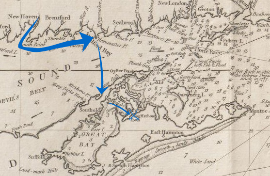 A 1794 map of eastern Long Island and the Connecticut coastline, annotated to show the route of the 1777 Meigs Raid.